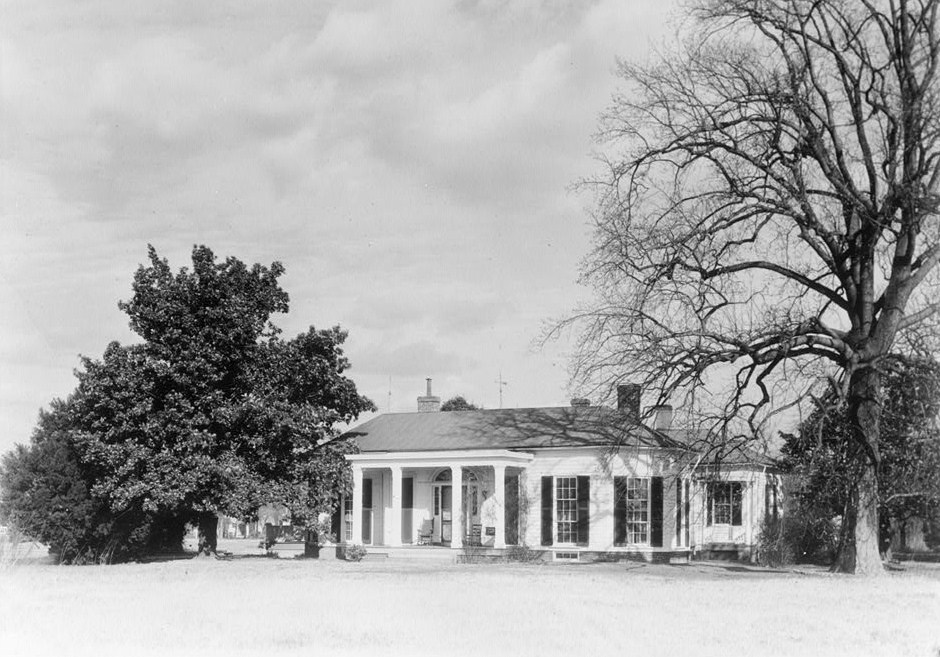 Oak Hill, 151 Carroll Avenue, (Colonial Heights, Virginia) cropped This file comes from the Historic American Buildings Survey (HABS), Historic American Engineering Record (HAER) or Historic American Landscapes Survey (HALS). These are programs of the National Park Service established for the purpose of documenting historic places. Records consist of measured drawings, archival photographs, and written reports. When reusing please credit: Library of Congress, Prints & Photographs Division, VA,21-____,2-1 This tag does not indicate the copyright status of the attached work. A normal copyright tag is still required. See Commons:Licensing. This work is in the public domain in the United States because it is a work prepared by an officer or employee of the United States Government as part of that person’s official duties under the terms of Title 17, Chapter 1, Section 105 of the US Code. Note: This only applies to original works of the Federal Government and not to the work of any individual U.S. state, territory, commonwealth, county, municipality, or any other subdivision. This template also does not apply to postage stamp designs published by the United States Postal Service since 1978. (See § 313.6(C)(1) of Compendium of U.S. Copyright Office Practices). It also does not apply to certain US coins; see The US Mint Terms of Use. This file has been identified as being free of known restrictions under copyright law, including all related and neighboring rights. Object location37° 14′ 12″ N, 77° 24′ 33″ W